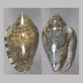 Species: Marginella carqueijai Gofas & Fernandes, 1994 Specimens: Luis Ferreira collection data: dredged at 2-5m Praia Amélia, Namibe. Angola Jan 95 L 10,8mm